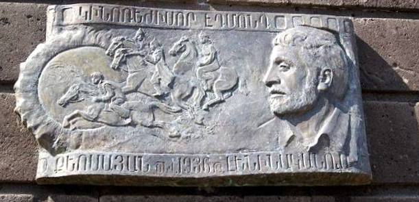 Edmond Keosayan plaque, Gyumri